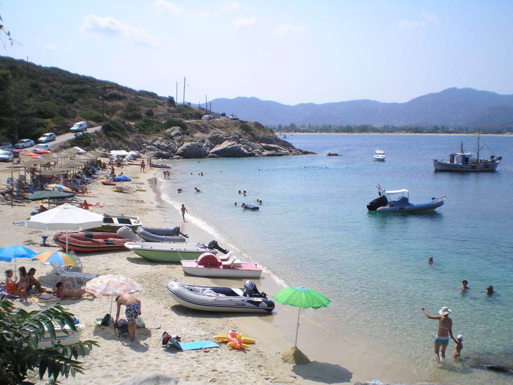 Tourkolimano Beach, Sykia, Chalcidice, Greece